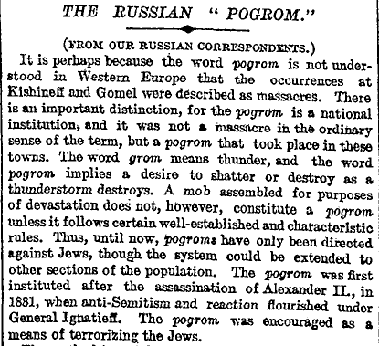 The Russian Pogrom, The Times, Monday, Dec 07, 1903